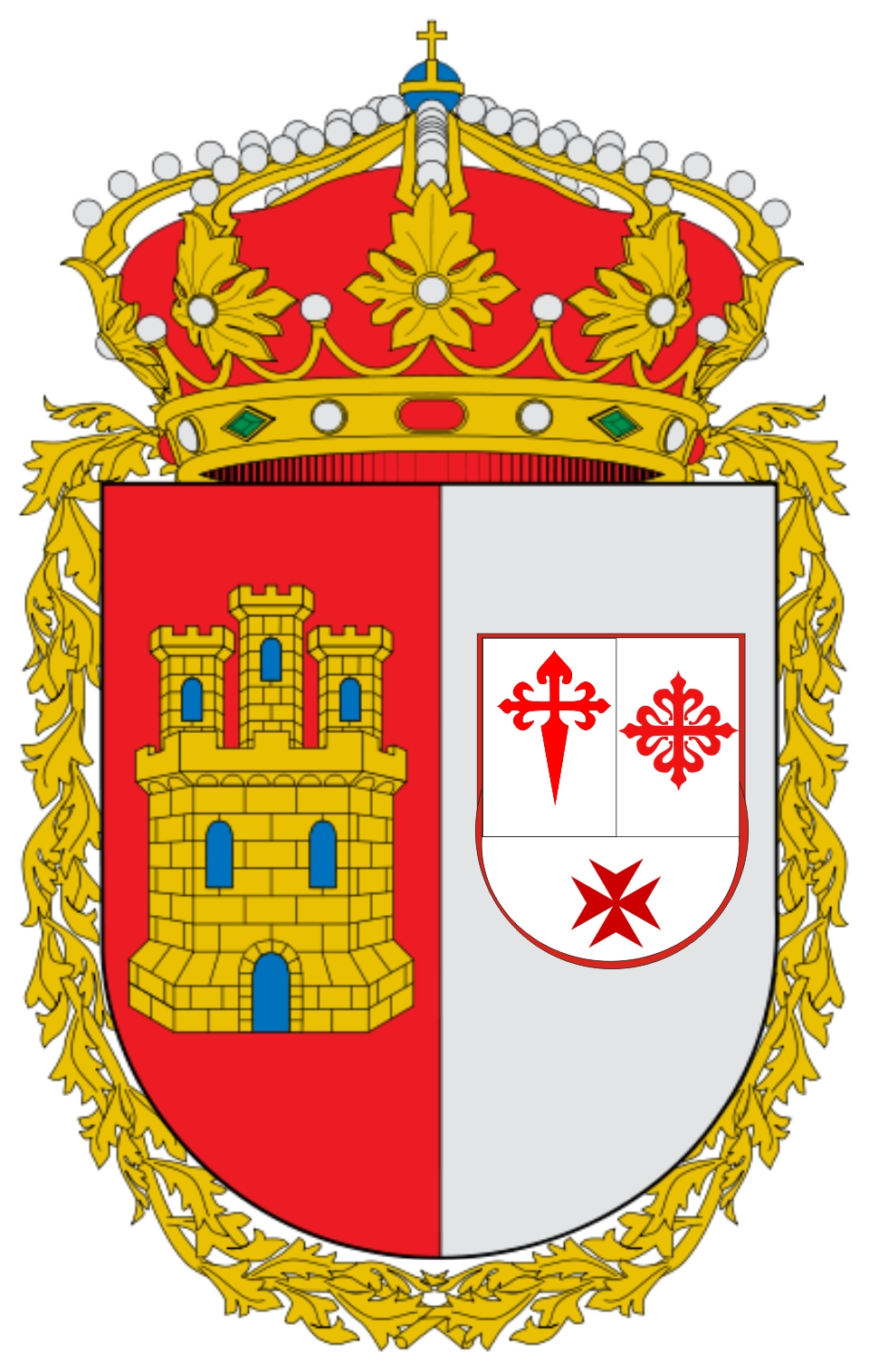 Coat of arms of Castile-La Mancha in an old proposed versionn